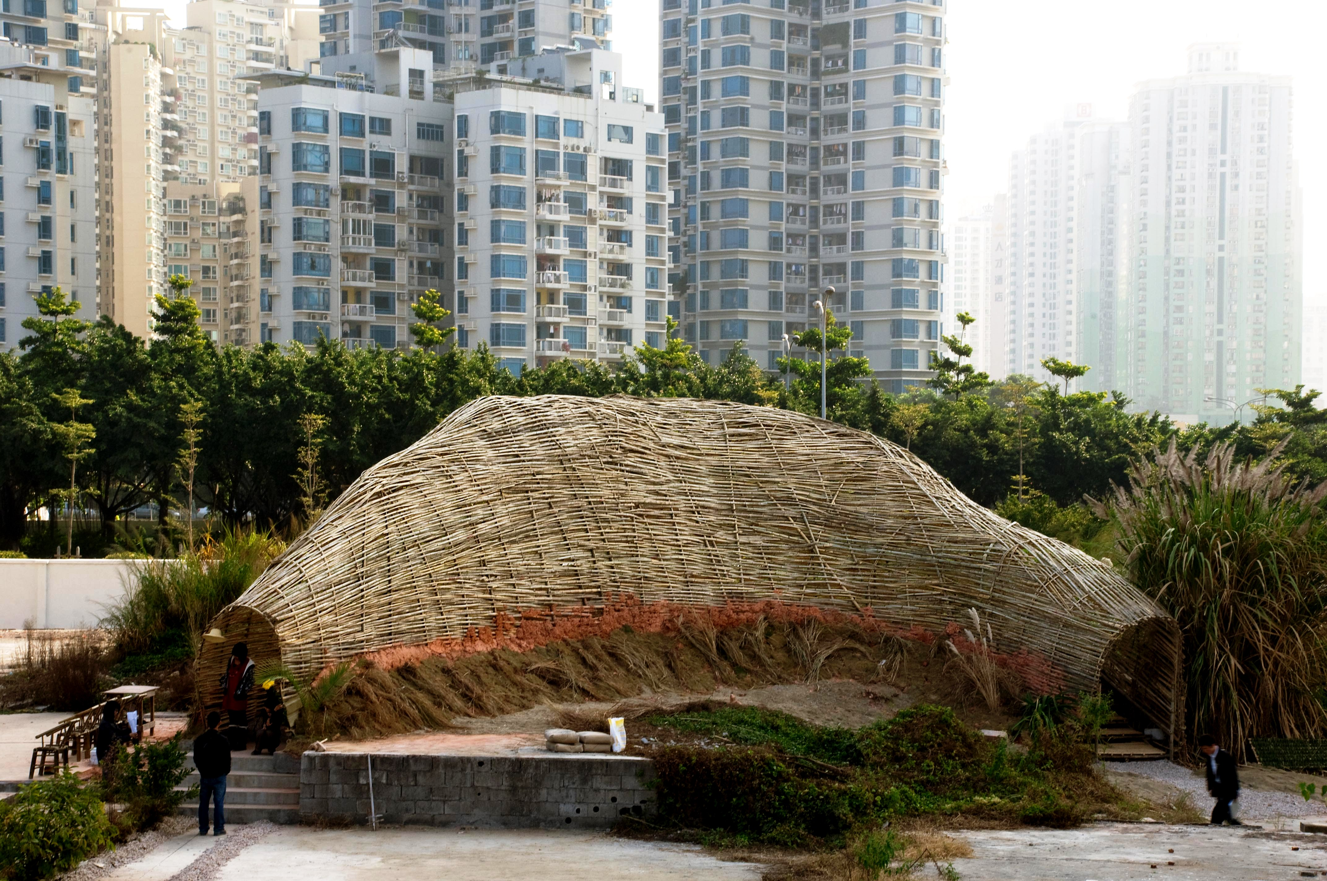 Bug Dome by WEAK! (Hsieh Ying-chun, Marco Casagrande, Roan Ching-yueh) in Shenzhen SZHK Biennale 2009.